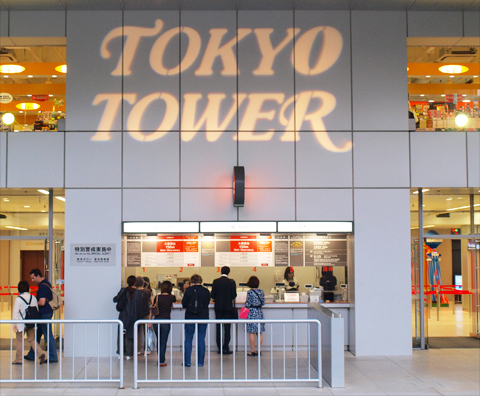 the entrance in Tokyo Tower.